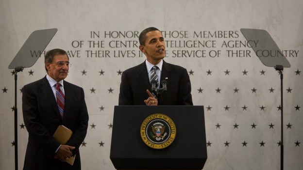 President Barack Obama speaks to CIA employees at CIA Headquarters in Langley, Virginia about why he decided to change interrogation policy for the United States. CIA Director Leon Panetta is to Obama's right.